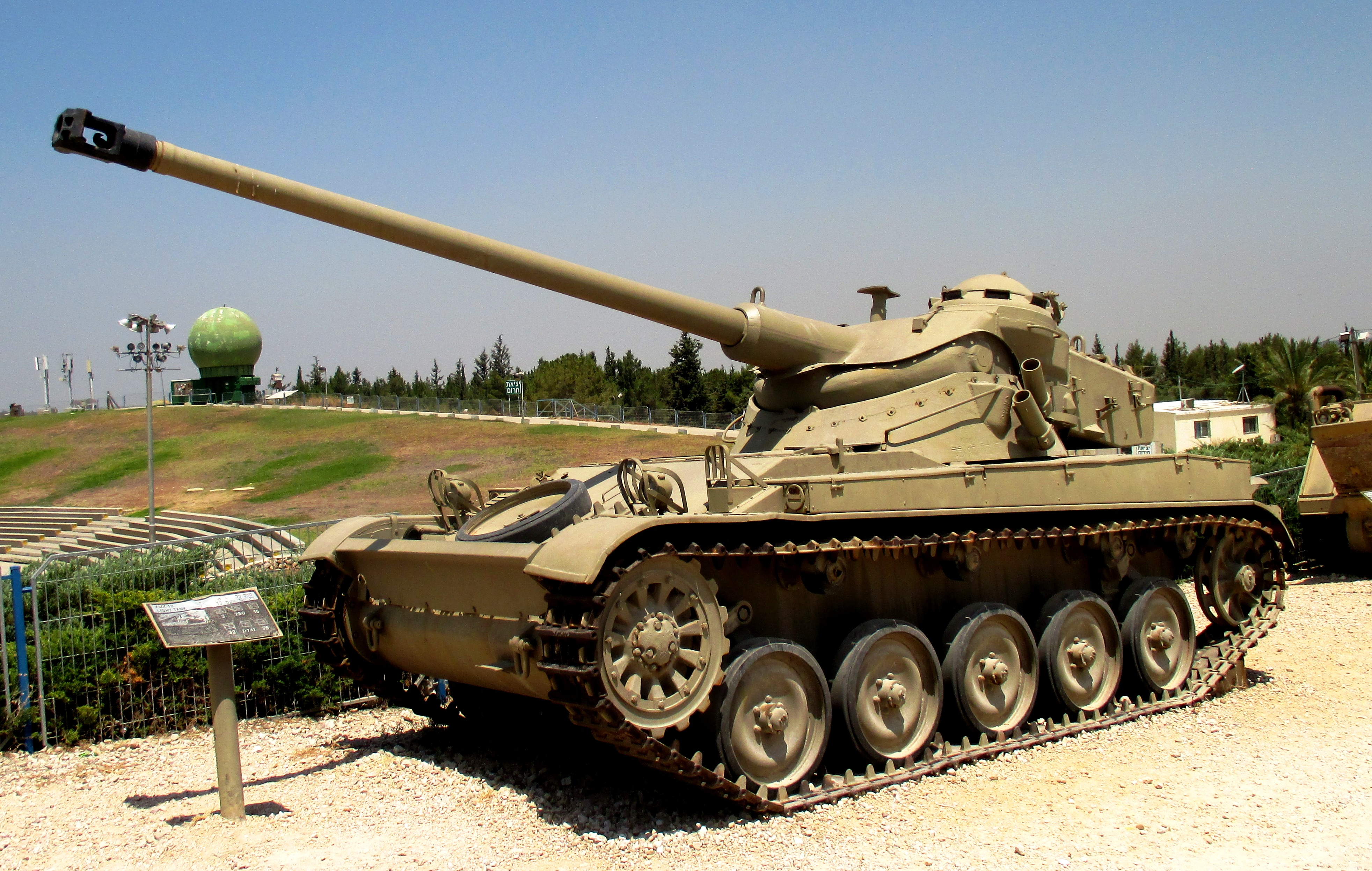 AMX-13 at the Israeli Armoured Corps/Yad la-Shiryon Museum, Latrun, Israel.